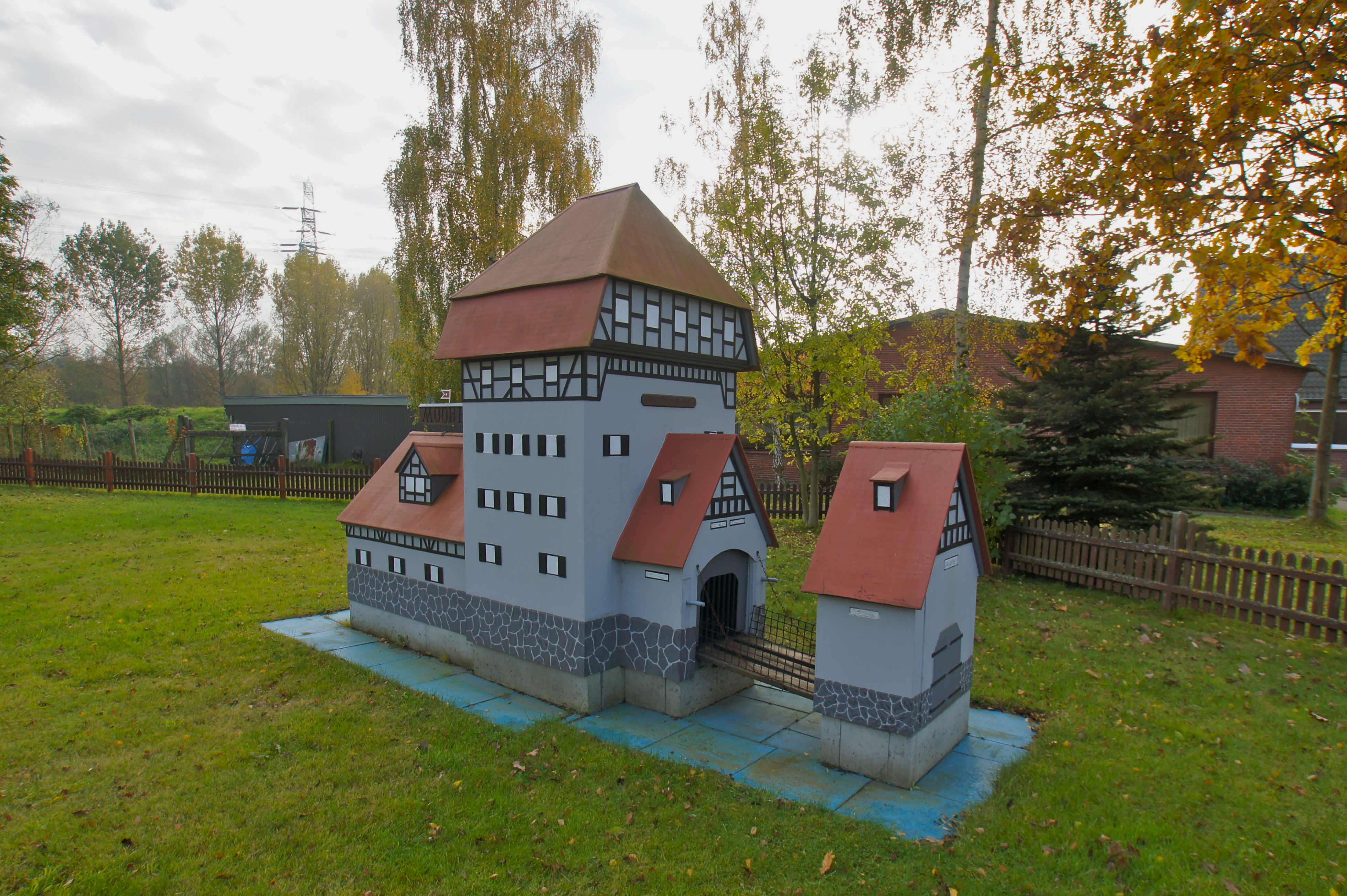 Hamburg (Moorburg), Germany: Model of the castle